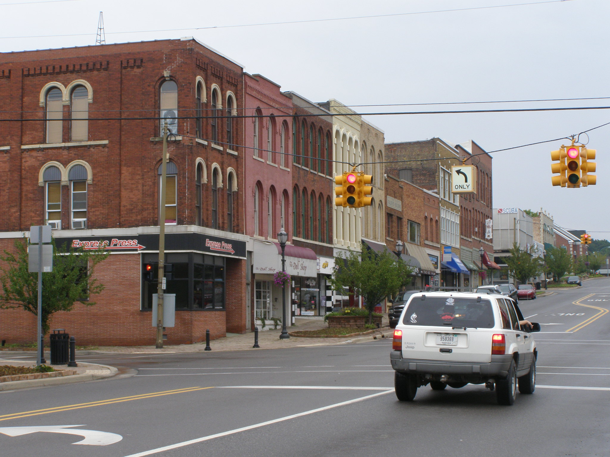 200 block of Main Street in St, Niles, Mich.